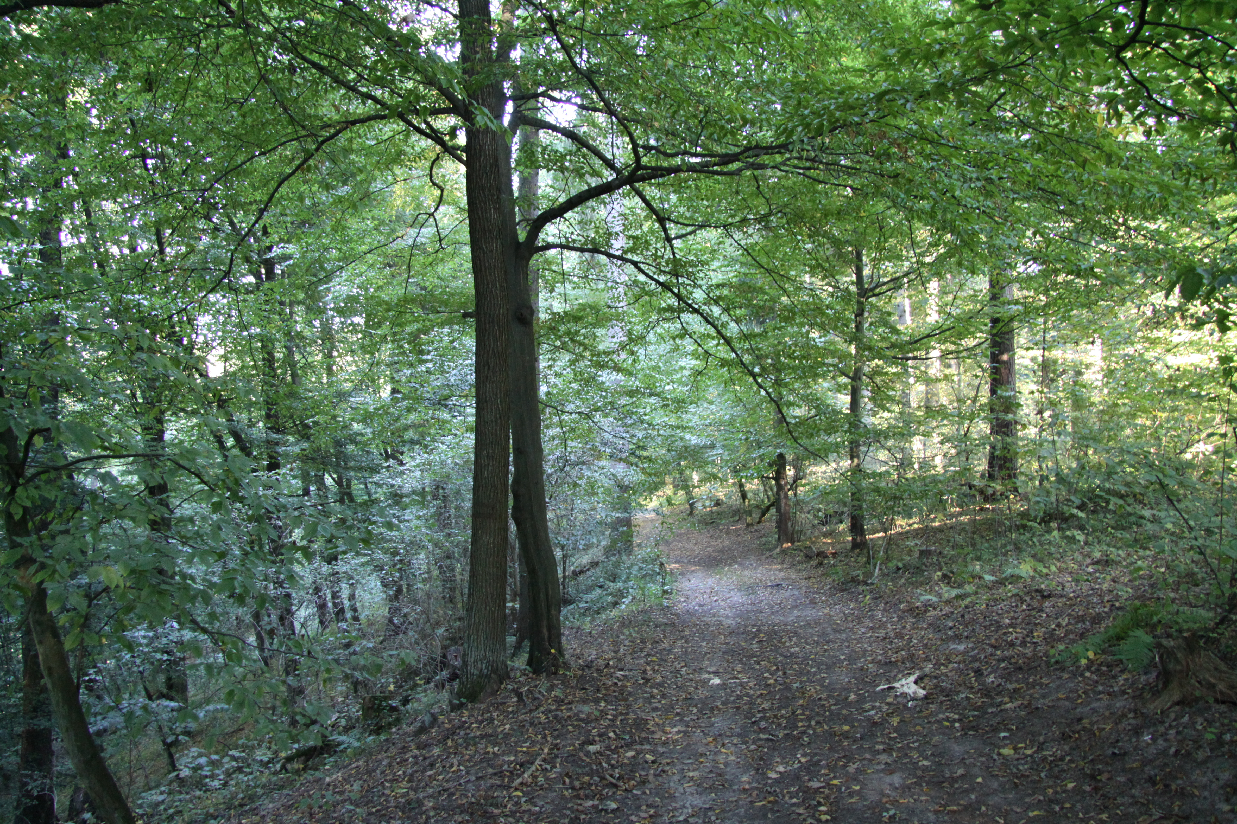 Natural reservation Dědovické stráně, Písek District, Czech Republic - Google Maps - Google Earth